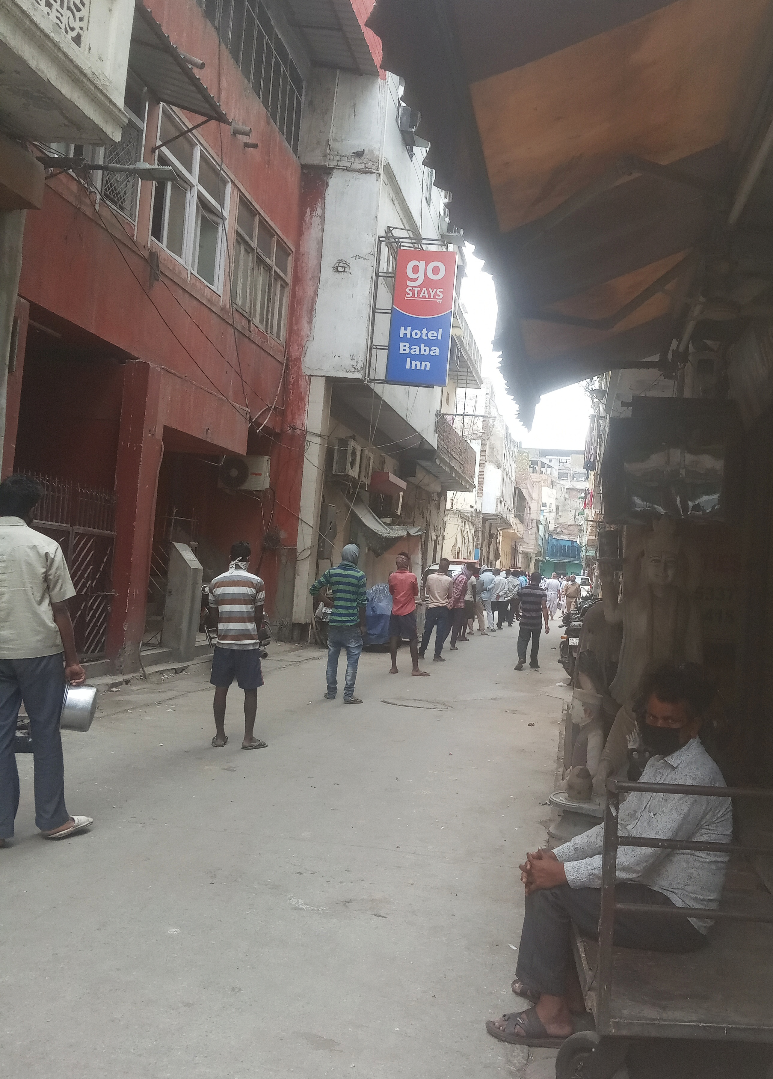 Jobless migrant workers on a que for food keeping social distance at Ramnagar, Paharganj, New Delhi